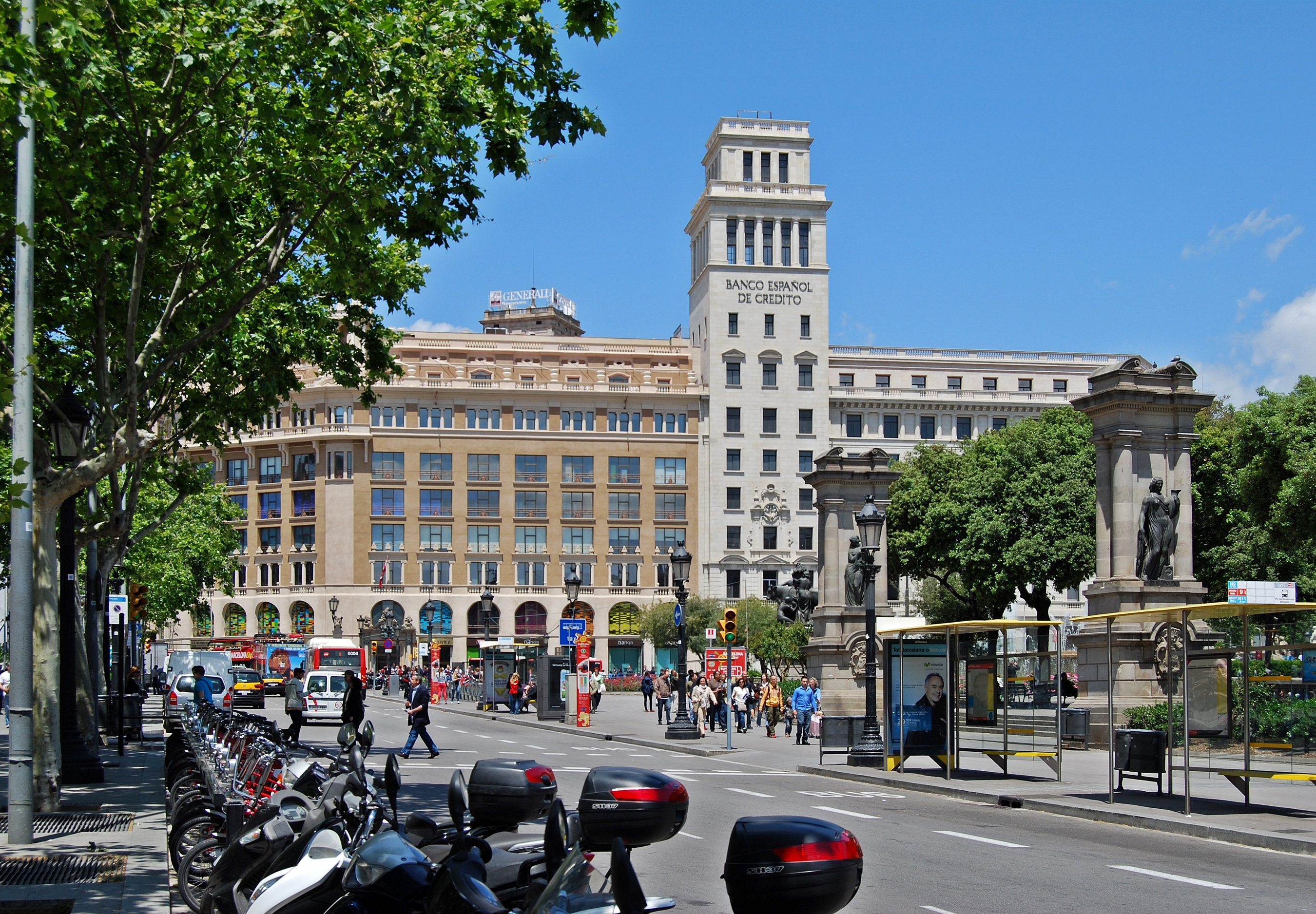 Building of Banco Español de Crédito at Plaça de Catalunya, Barcelona.